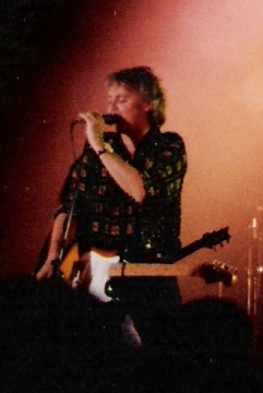 The Cross live in Neu Isenburg, Germany